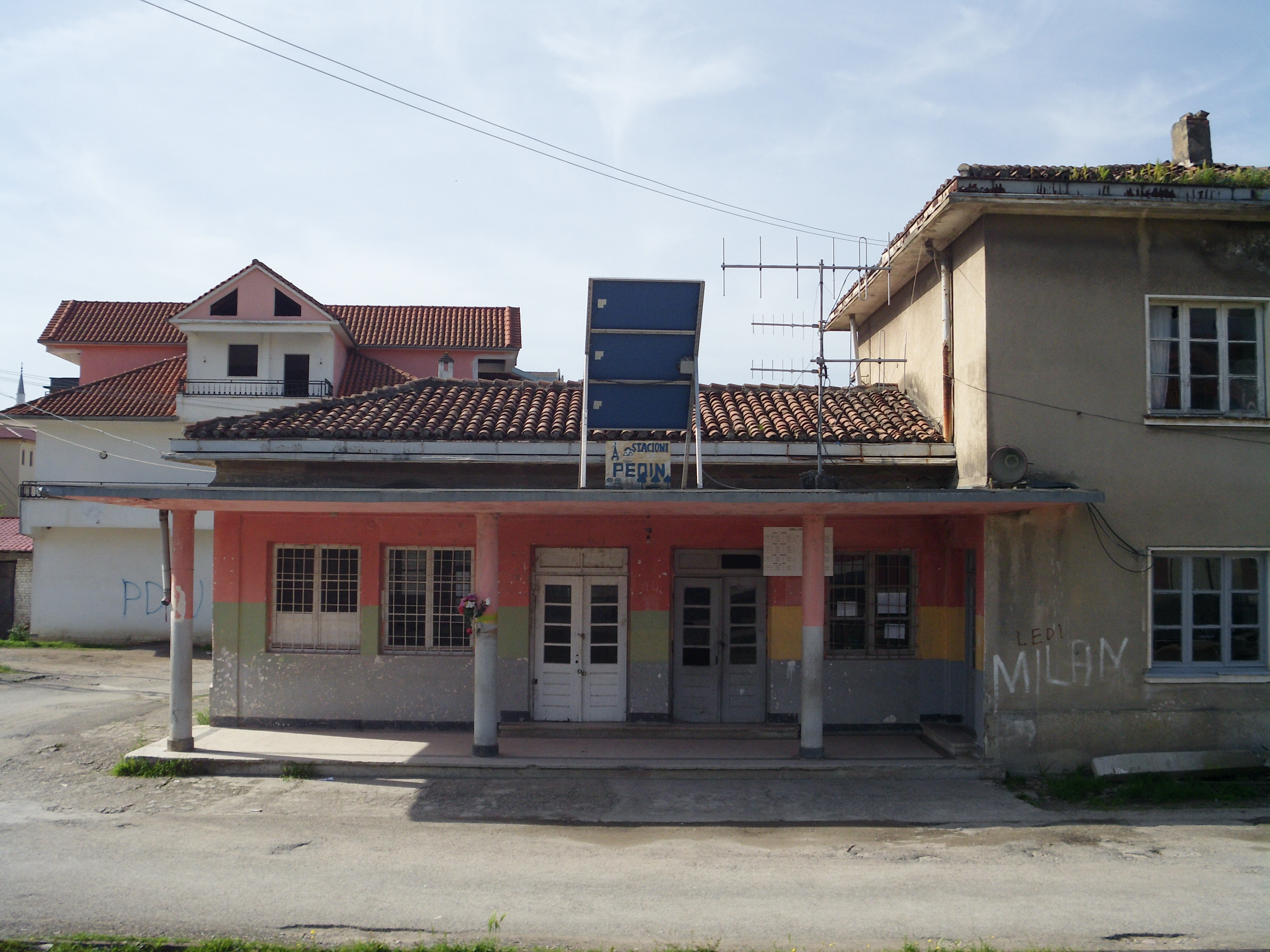 Train station in Peqin, Albania.